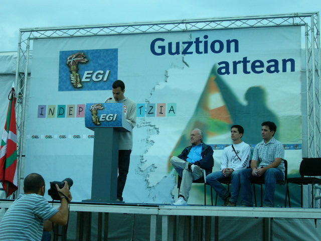 Alderdi Eguna´s speech for EGI members. Xabier Aralluz